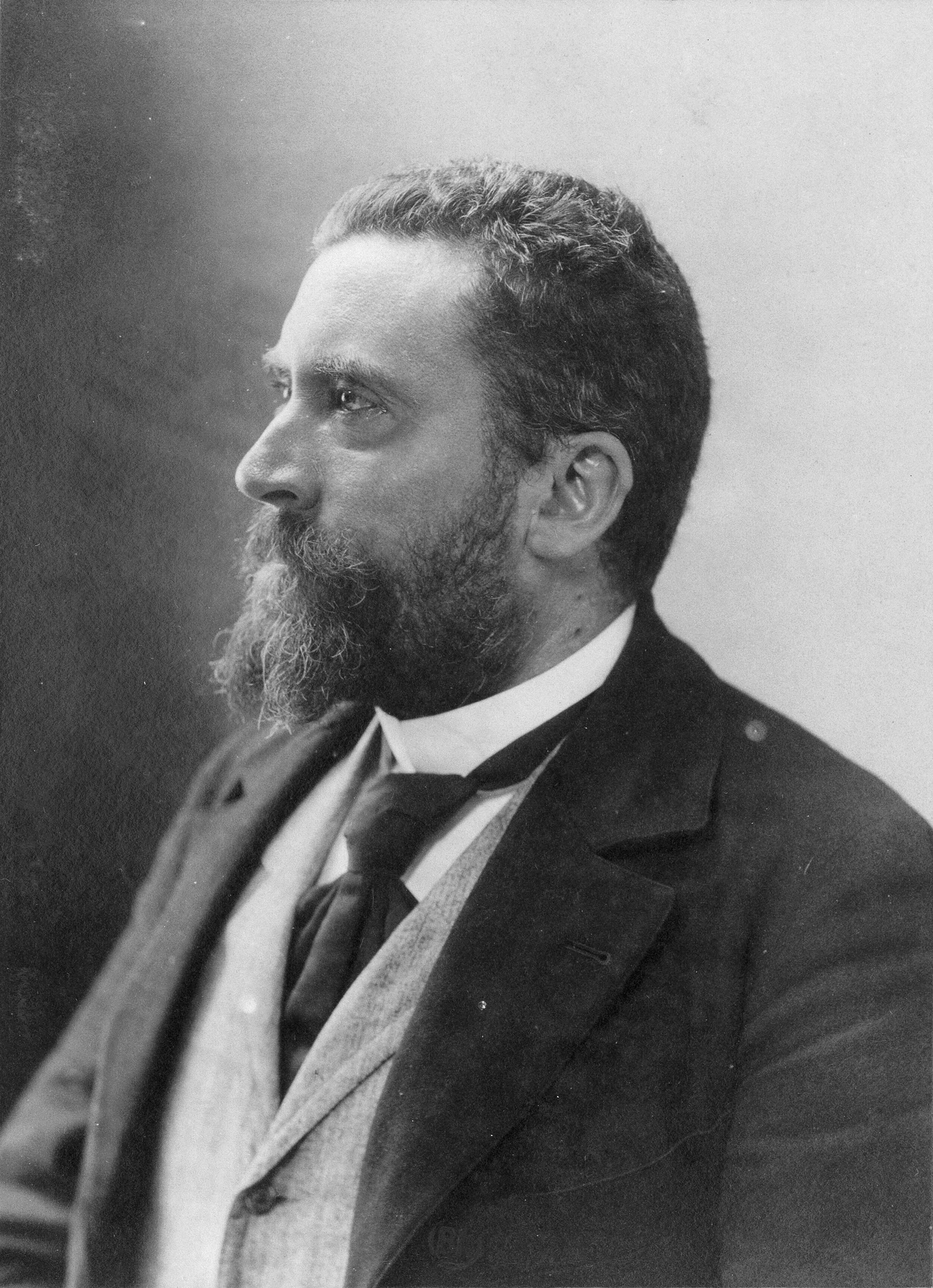 Jean Jaurès, 1898, by Nadar.